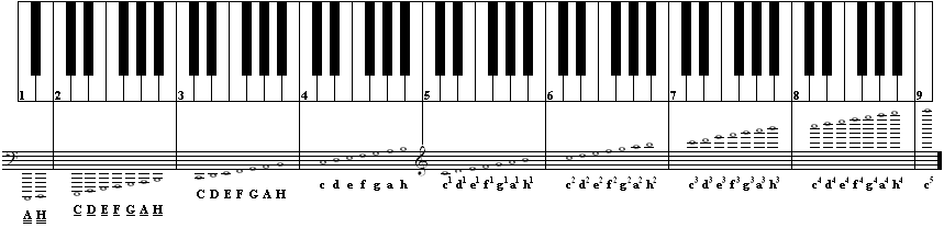 koobak Numbered keyboard piano and scales